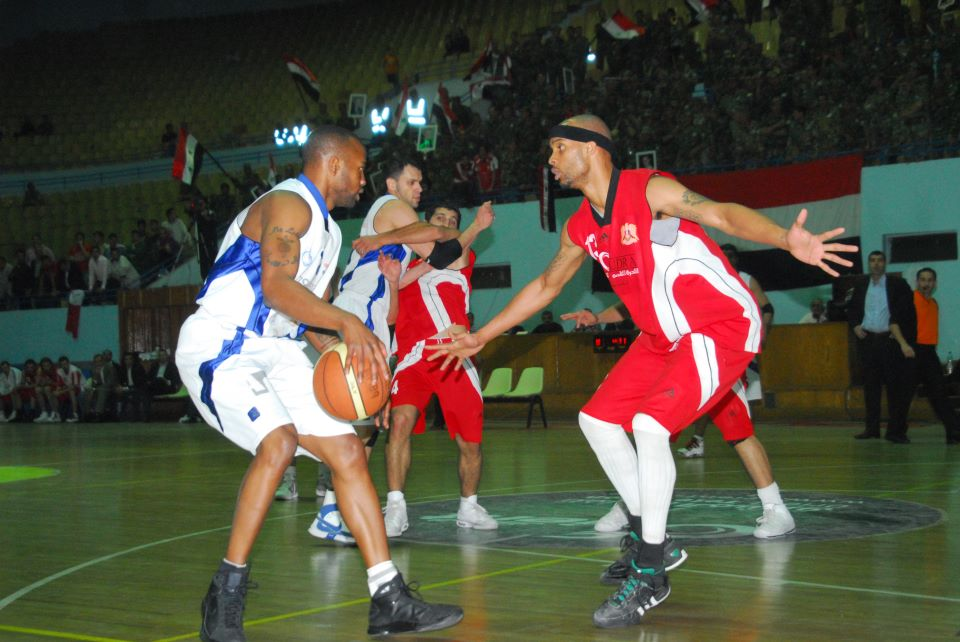 Damond Williams joined the Syrian Premier League, playing for 3 teams from 2007 - 2010